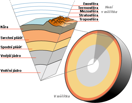 Earth and atmosphere cutaway illustration.